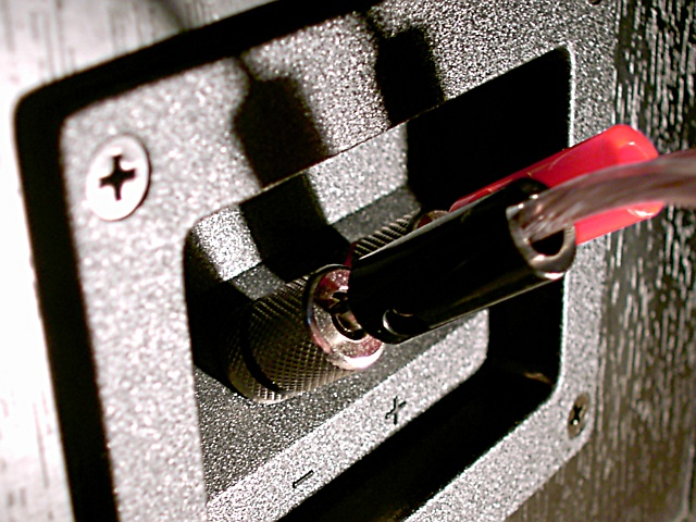 4 mm banana plugs connecting an amplifier to a loudspeaker (loudspeaker end of cable shown in picture).